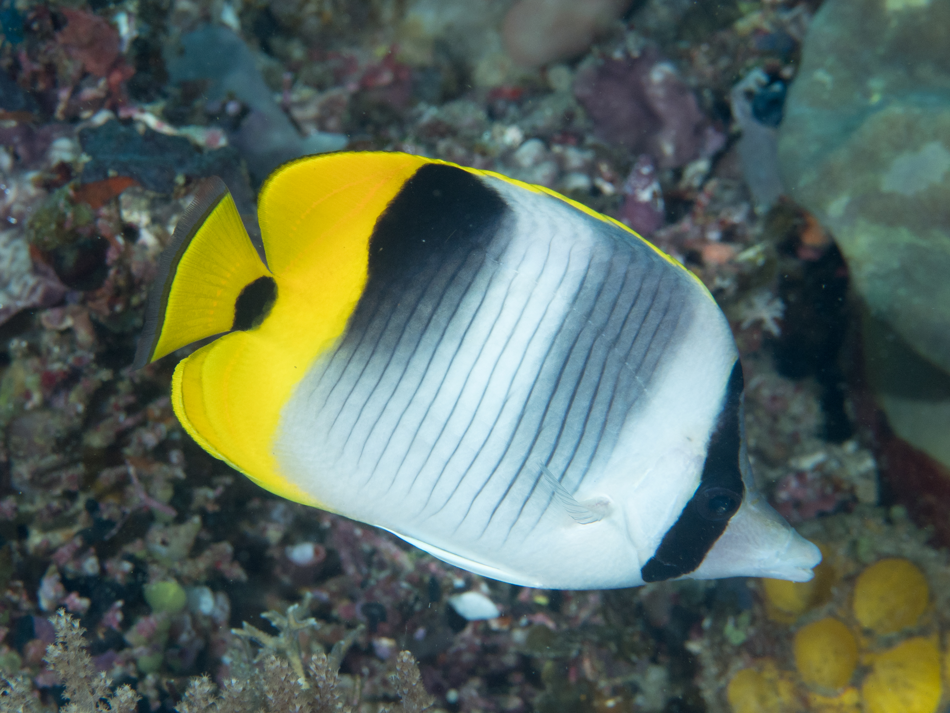 Pacific double-saddle butterflyfish (Chaetodon ulietensis). Raja Ampat